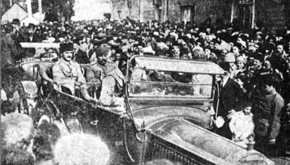 Turkish general Enver Paşa in Batumi in 1918